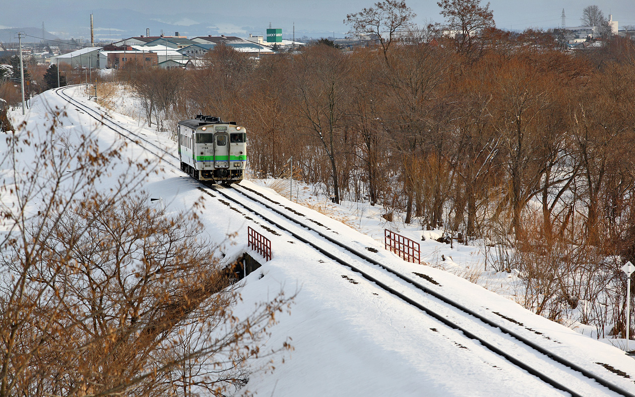 JNR Kiha 40-1700 series DMU on the Muroran Main Line for 1471D train. Kiha 40-1768, between Kuriyama and Kurioka